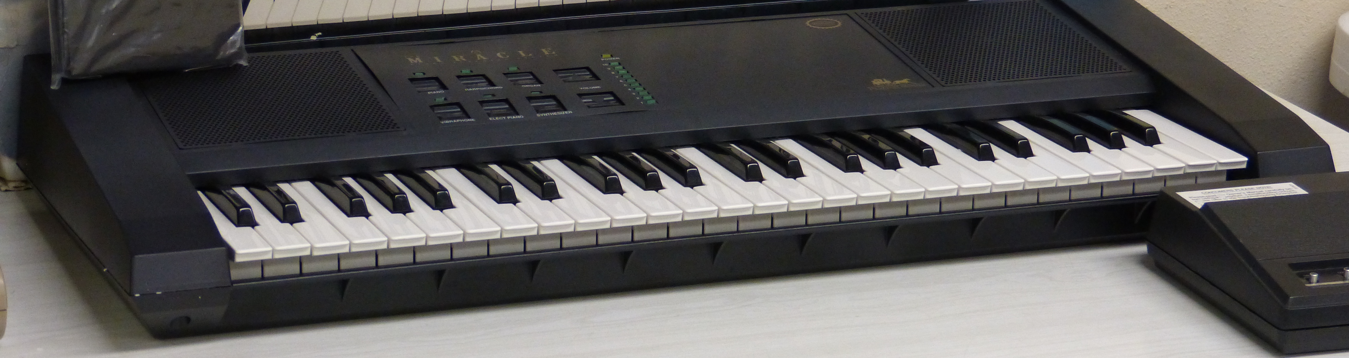 A photo of a Miracle Piano Teaching System keyboard.